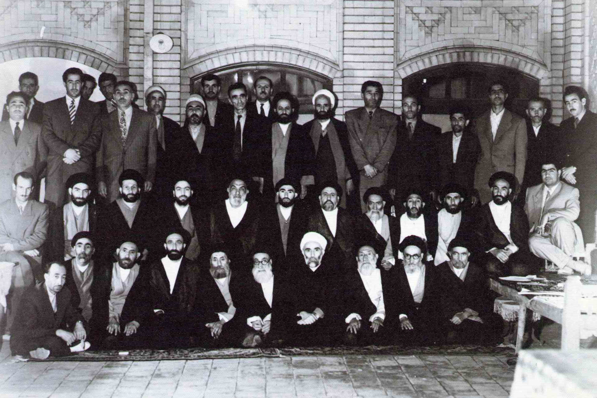 Mohammad Taghi Falsafi